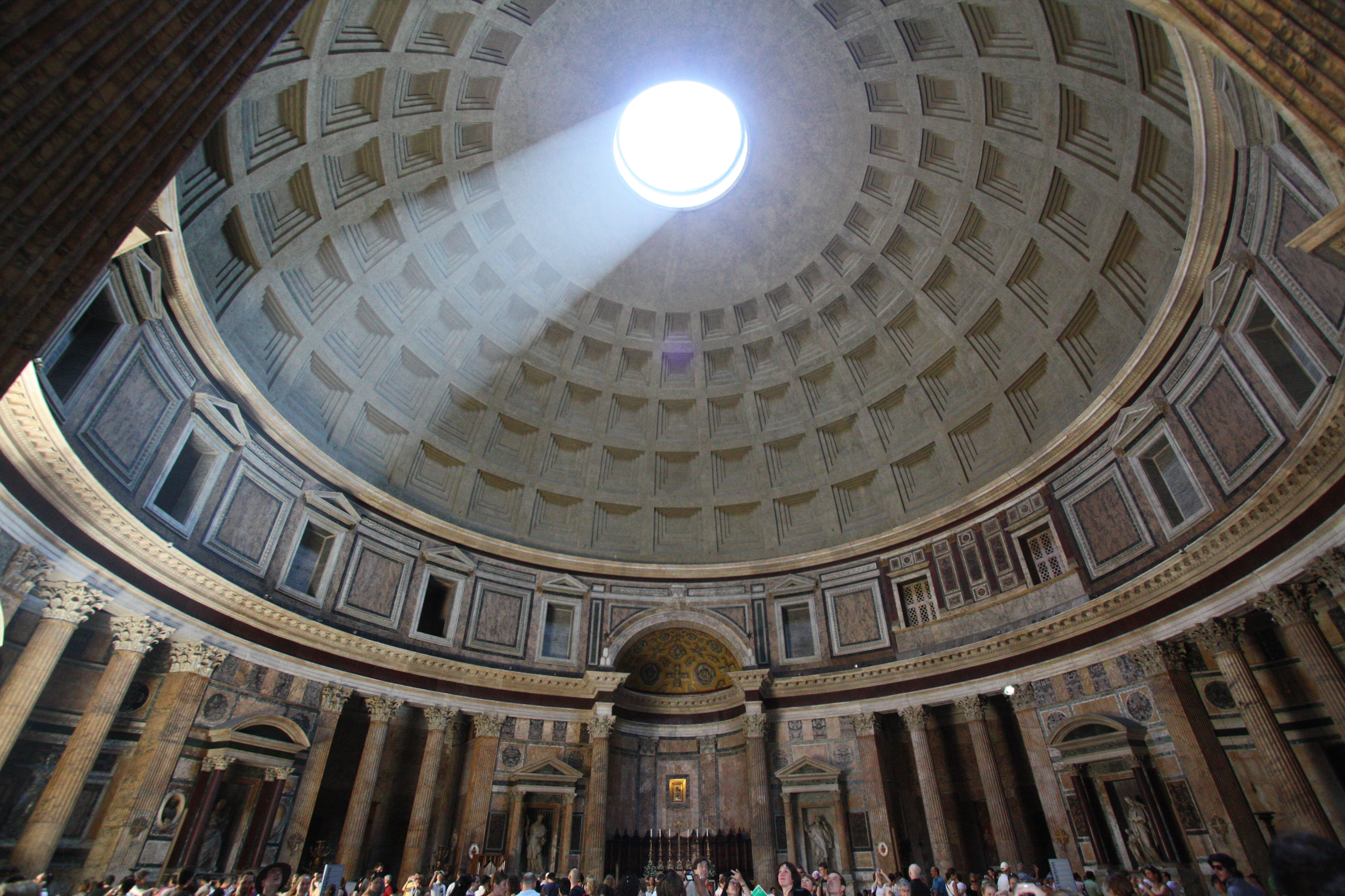 Wide Angle Photograph - Internal Pantheon, Roma